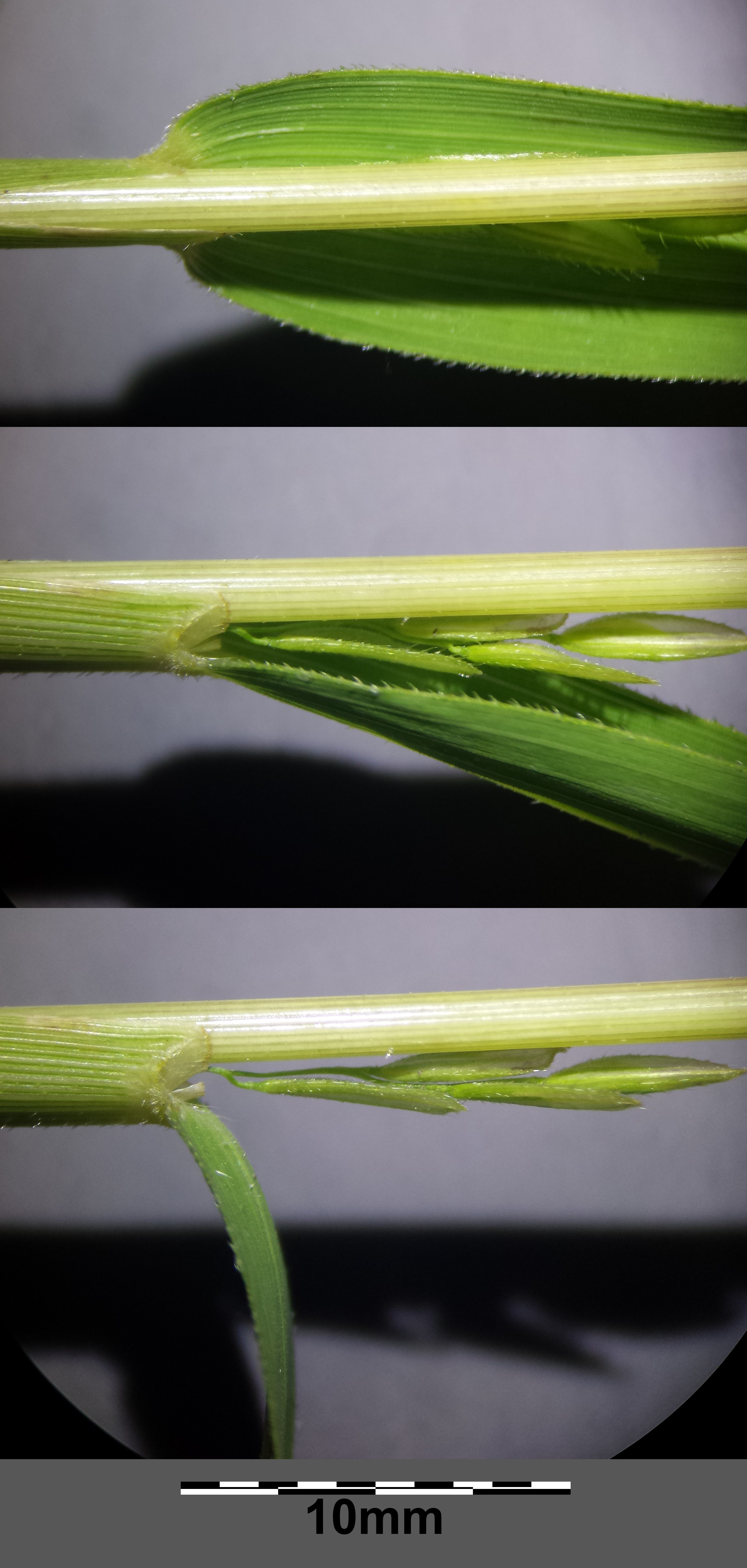 Stipe with leaf and ligula Taxonym: Leersia oryzoides ss Fischer et al. EfÖLS 2008 ISBN 978-3-85474-187-9 Location: Marchfeldkanal near Steinamangergasse, Wien-Floridsdorf - ca. 160 m a.s.l. Habitat: shore